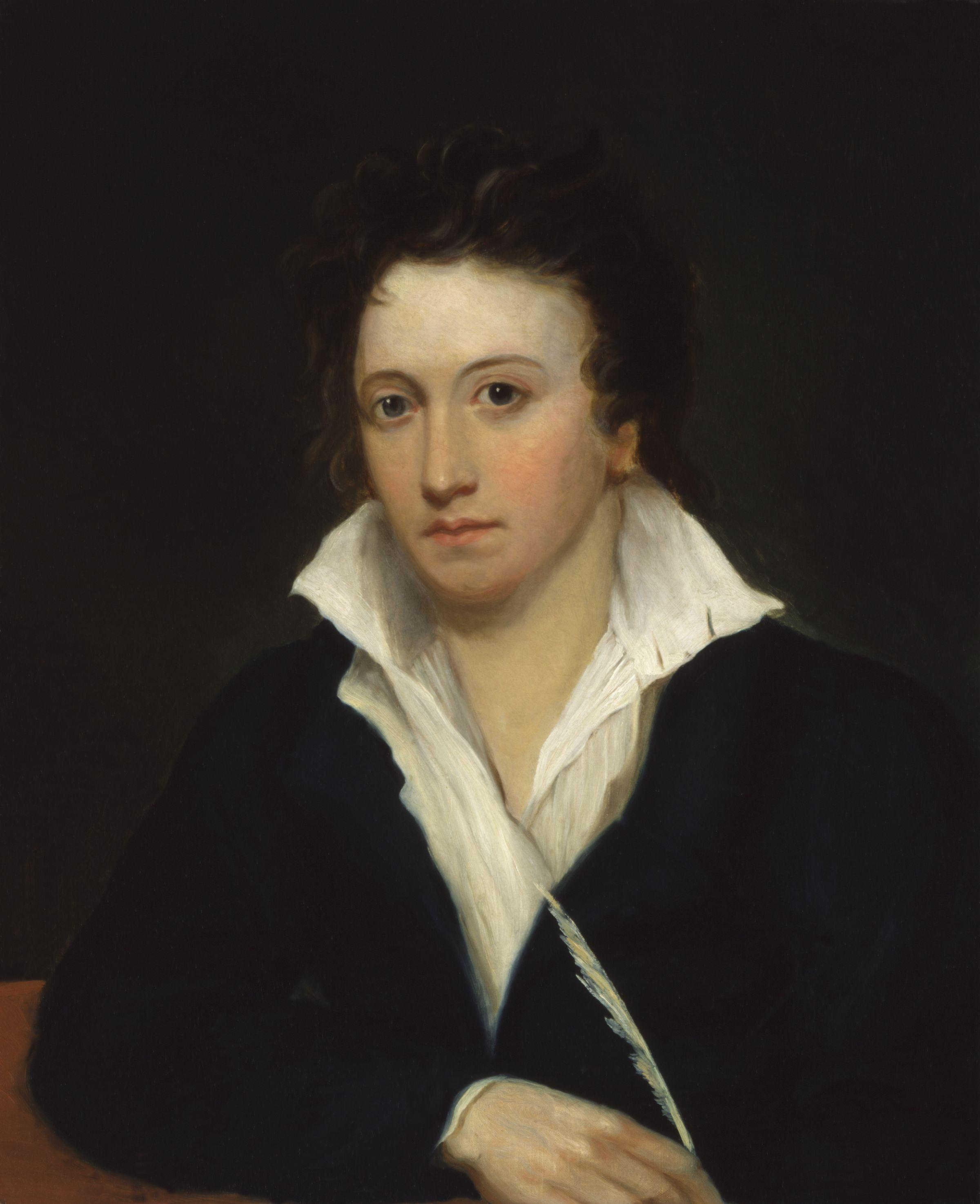 Percy Bysshe Shelley, by Alfred Clint (died 1883). All images in this batch have been confirmed as author died before 1939 according to the official death date listed by the NPG.